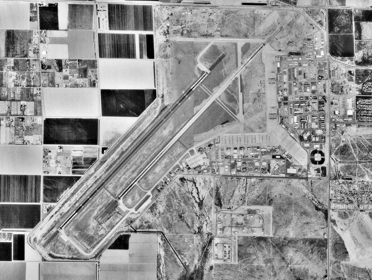 USGS digital orthophoto of Luke Air Force Base in Arizona